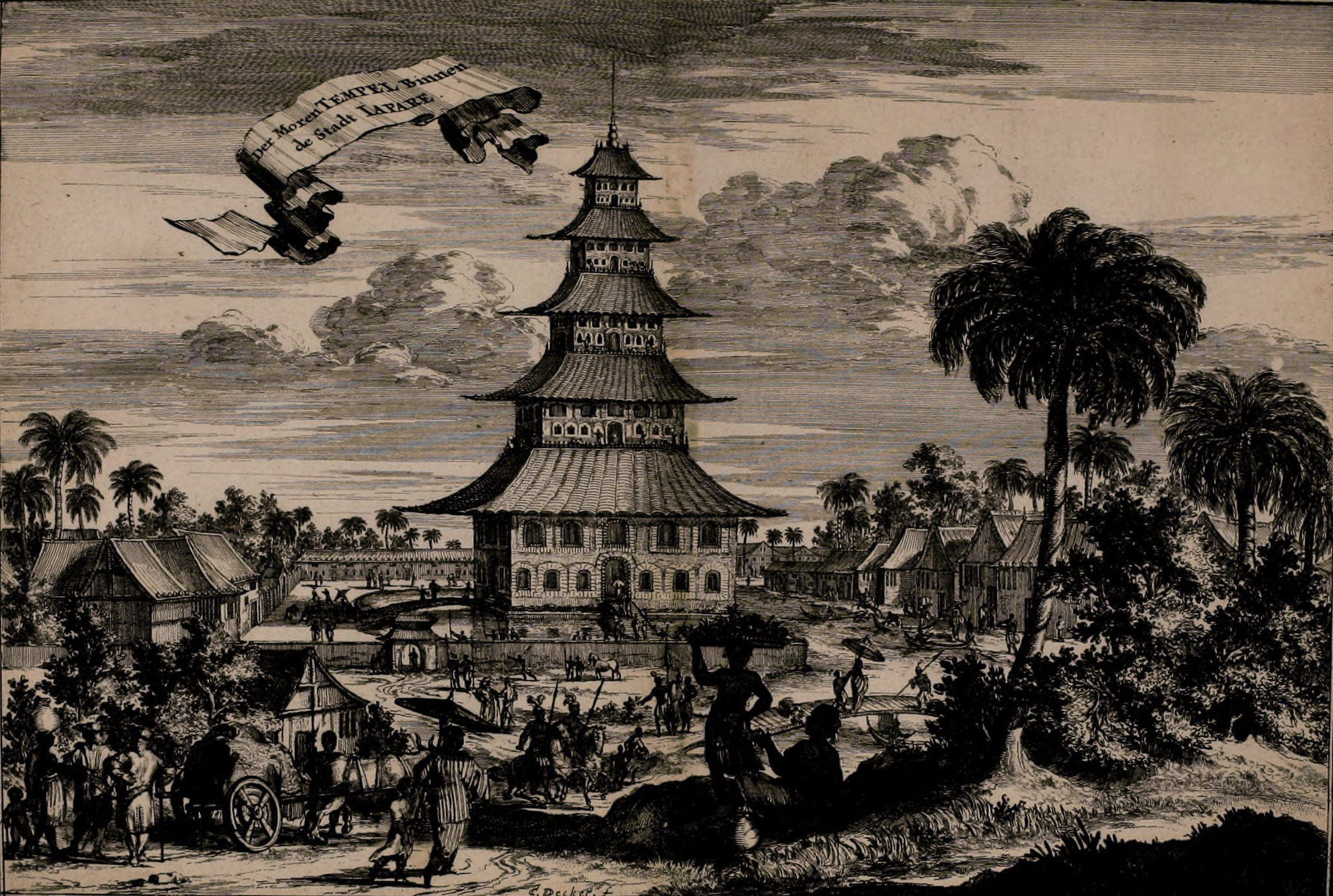 A mosque in the city of Iapare (now Jepara). From "Oost-Indische voyagie", first published in 1676